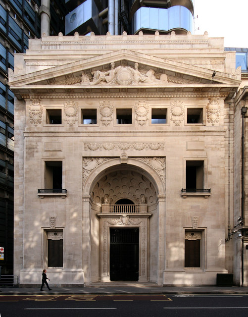 Lloyd's of London building facade, London, England